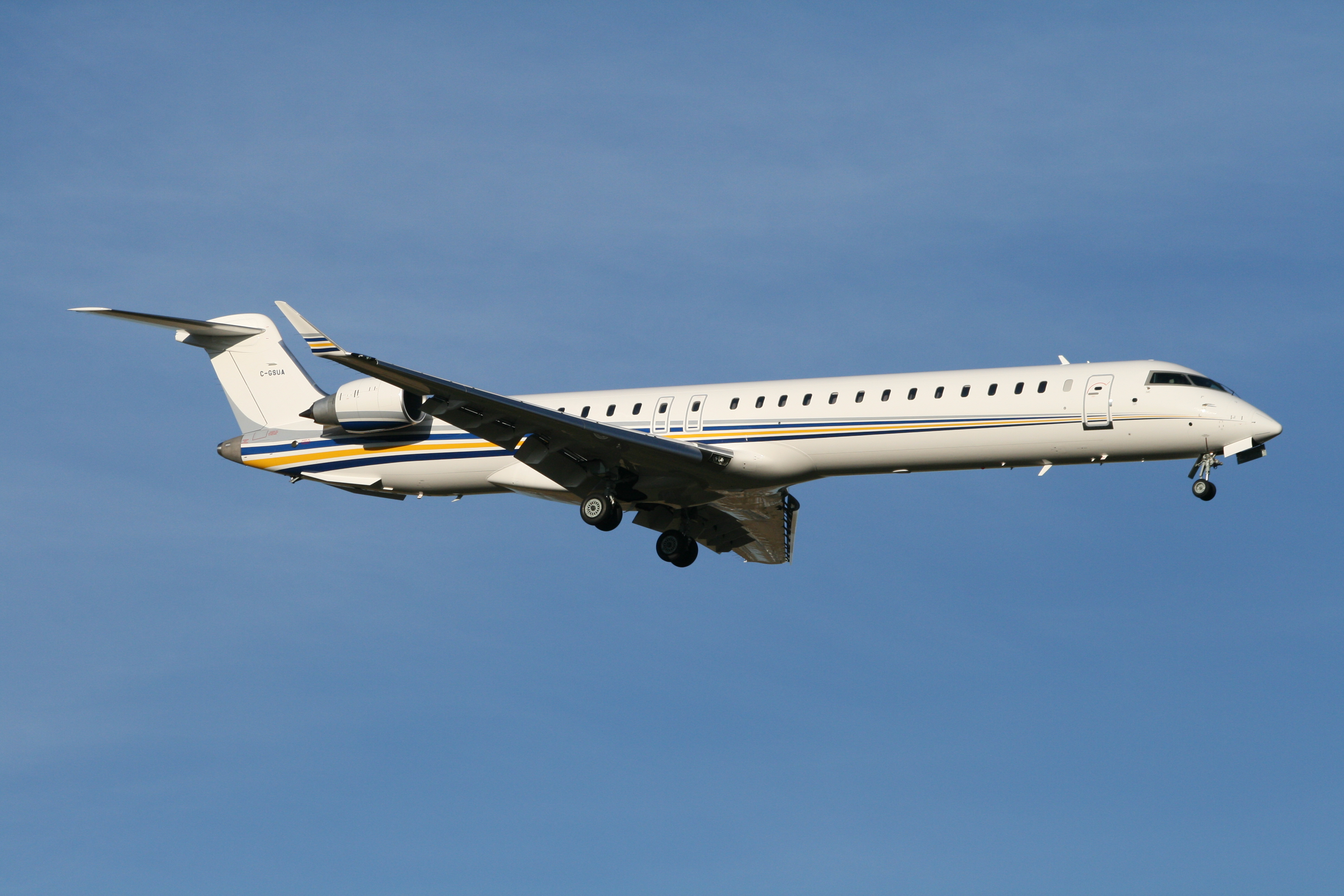 Suncor Energy CRJ-900 C-GSUA